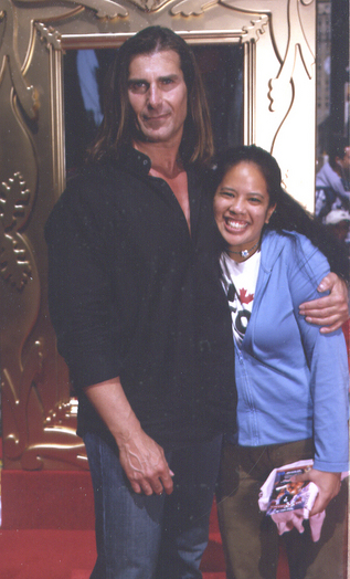 Fabio Lanzoni and female fan in Times Square, New York City.